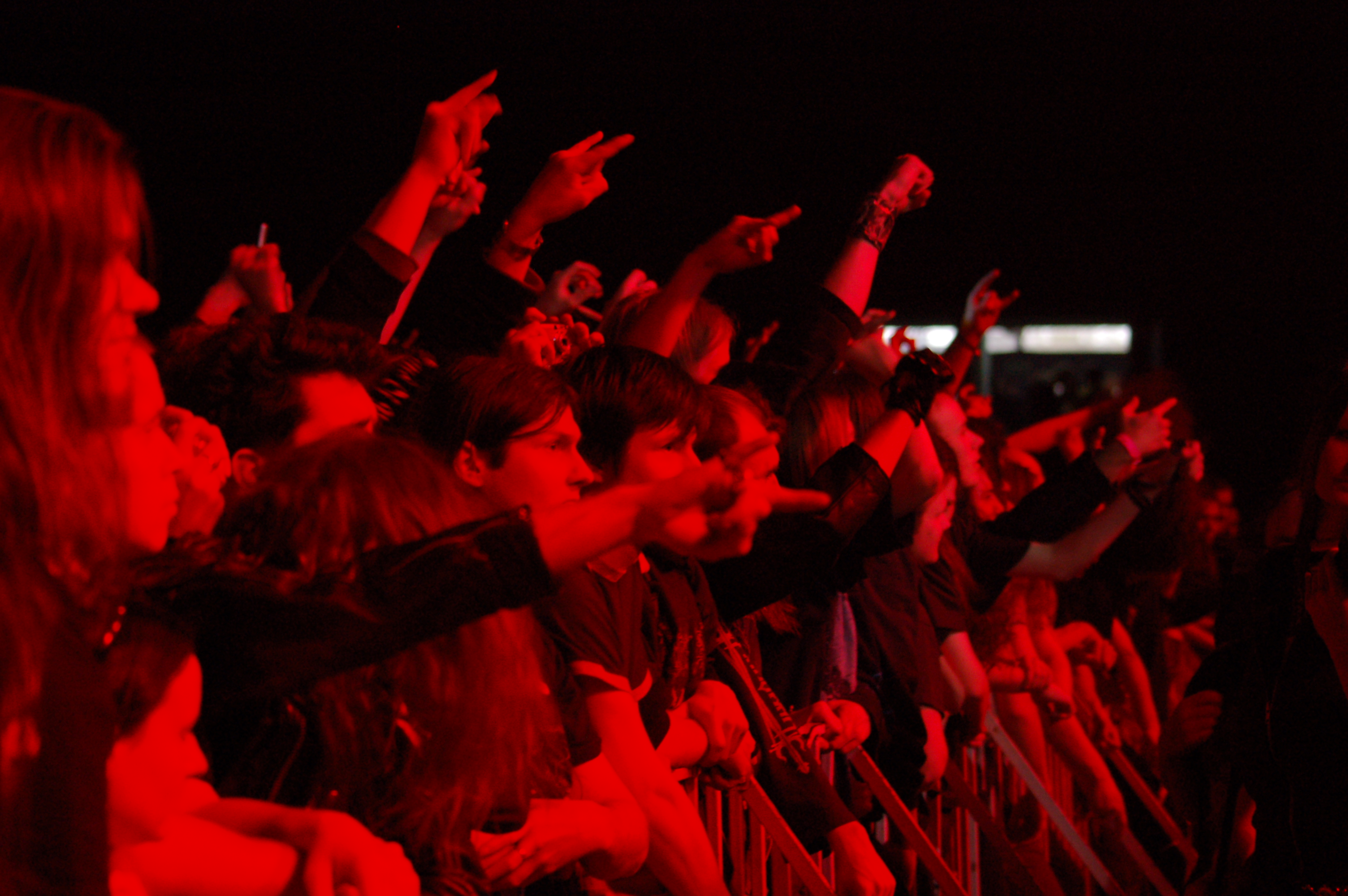 Fans from Vital Remains during Metalmania 2007 festival